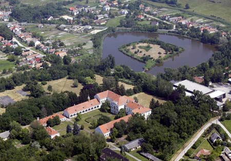 Nagyláng (Soponya), Palace, Hungary, aerial photography